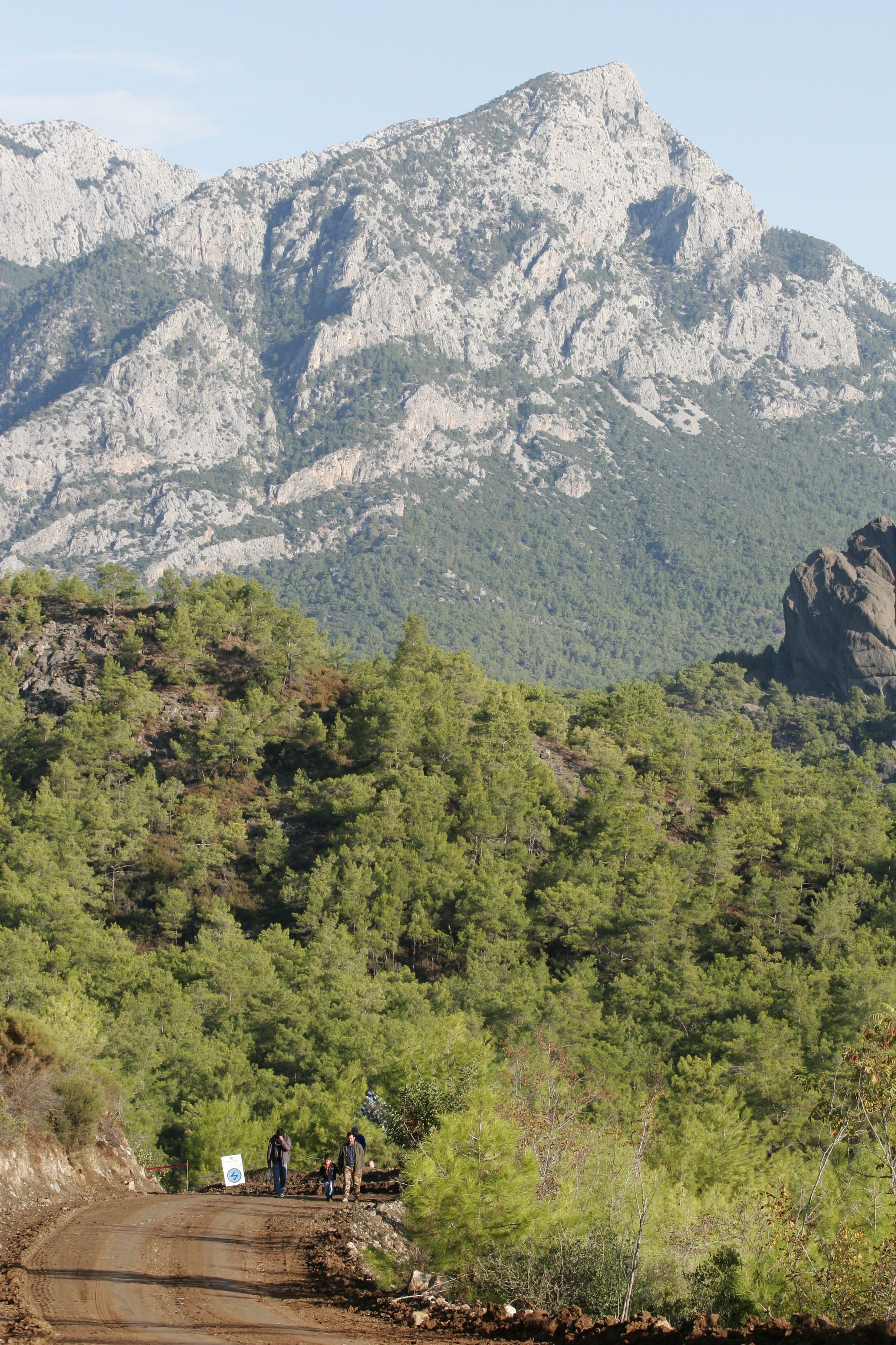 Superspecial stage Tekirova. Rally of Turkey 2006.